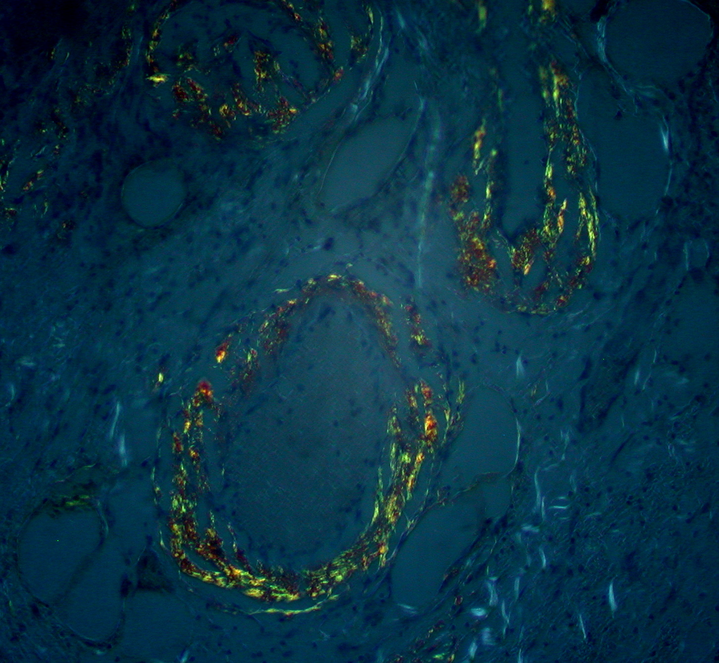 Gastric Amyloidosis (Congo Red Stain, Crossed Polarizers) Pathological and histological images courtesy of Ed Uthman at flickr.